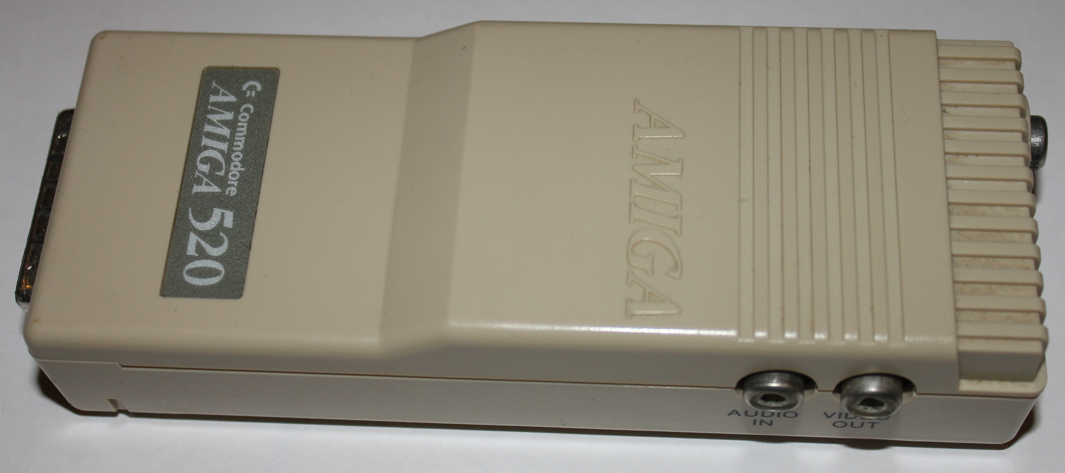 A photo of the Amiga 520 RF output adapter for the Amiga 500.